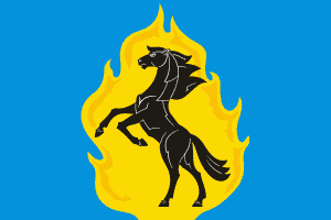 Flag of Yurga, Kemerovo Region, Russia